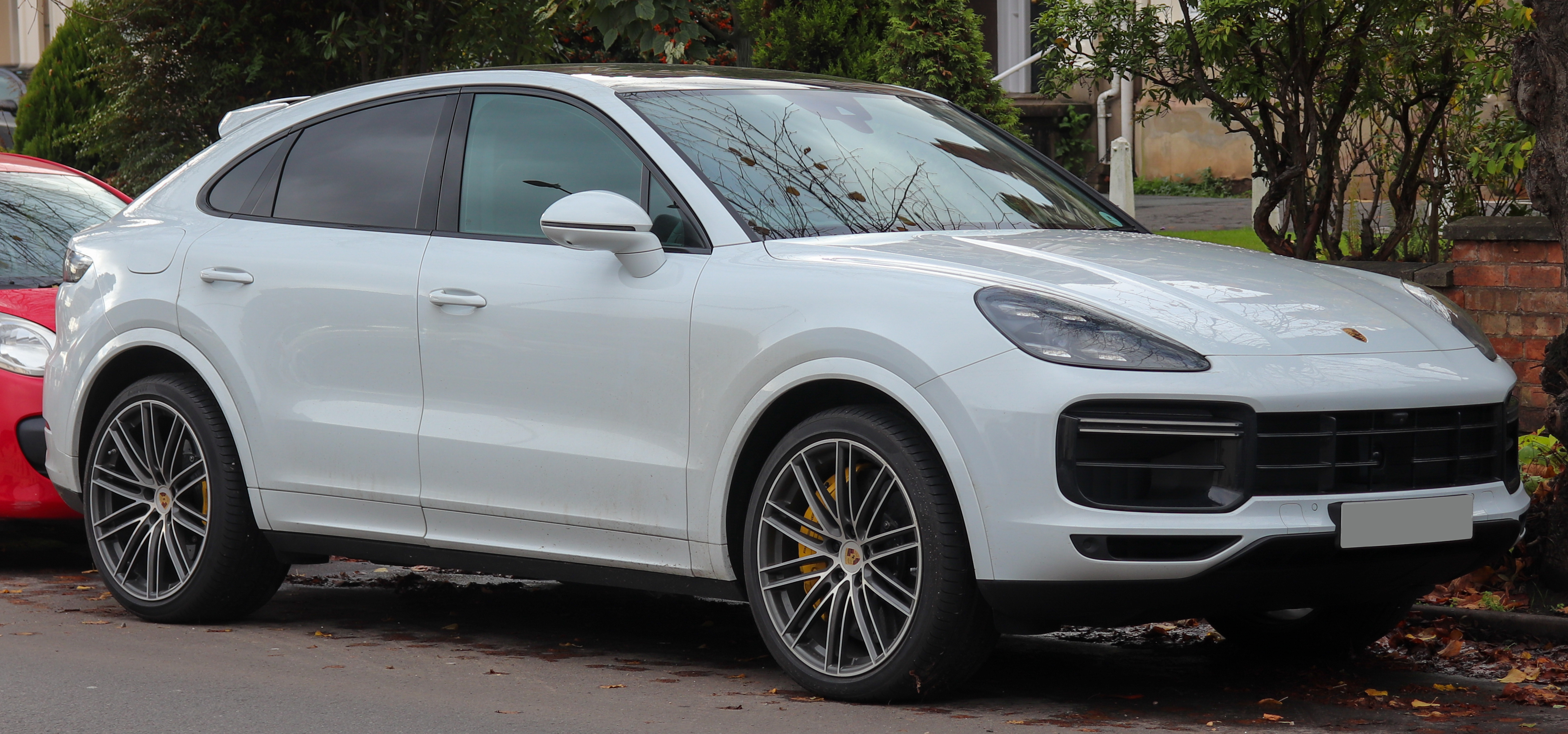 2019 Porsche Cayenne V8 Turbo Automatic Coupe 4.0 Front Taken in Leamington Spa